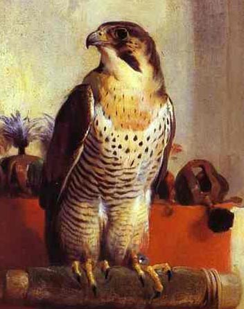 The Falcon